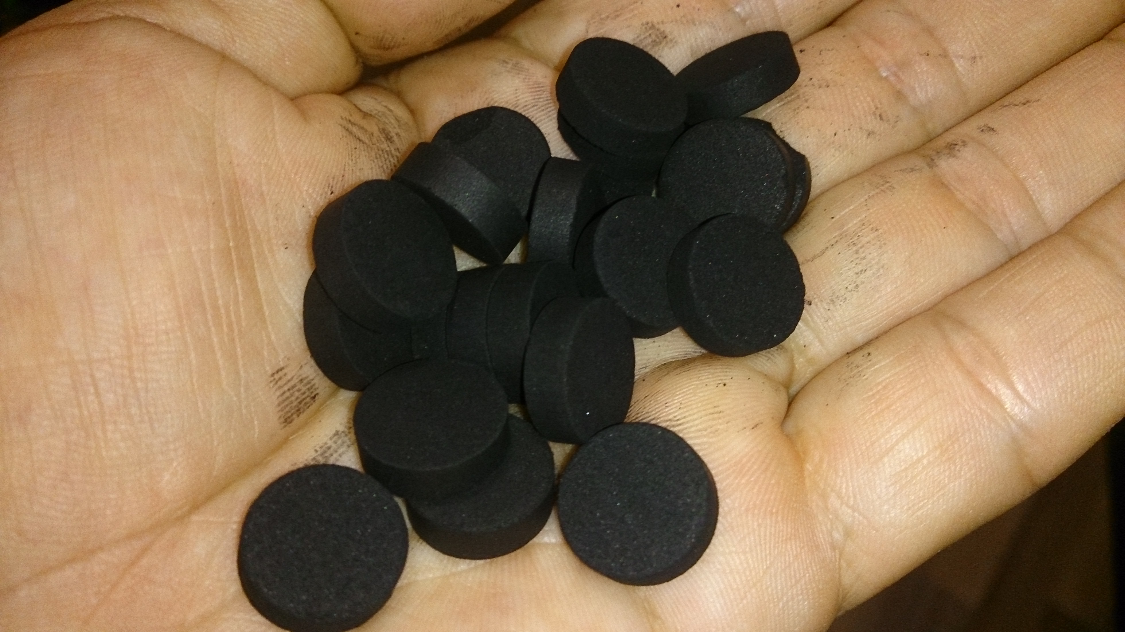 medicinal charcoal for diahorrea treatment